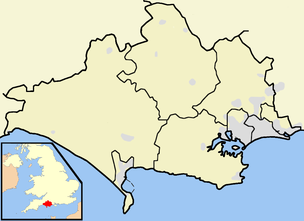 Outline of Dorset.